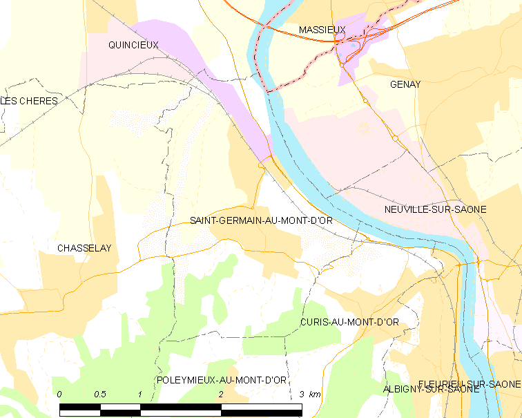 Map of French municipality